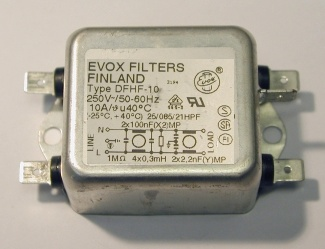 Encapsulated line filter for use at 230V